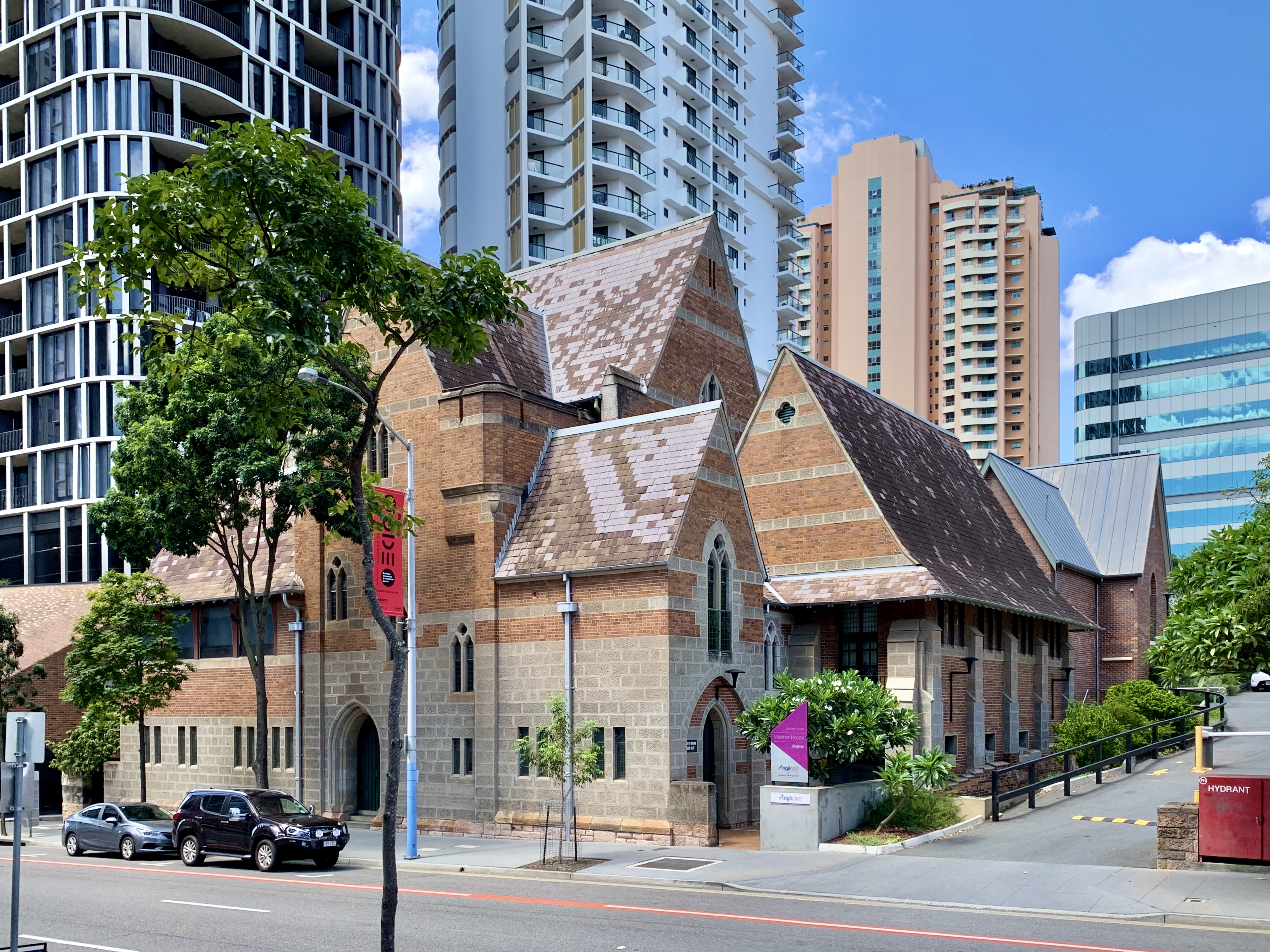 Webber House, Ann Street, Brisbane, Queensland